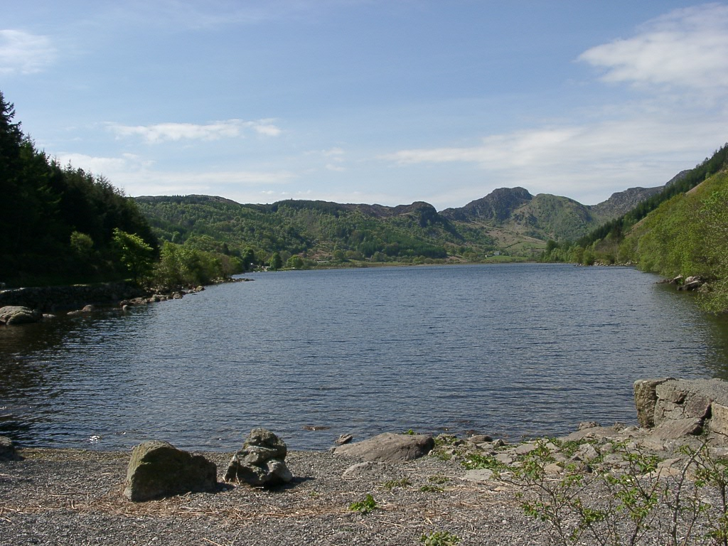 Photo of Llyn Crafnant in North Wales, taken by me, Hogyn Lleol